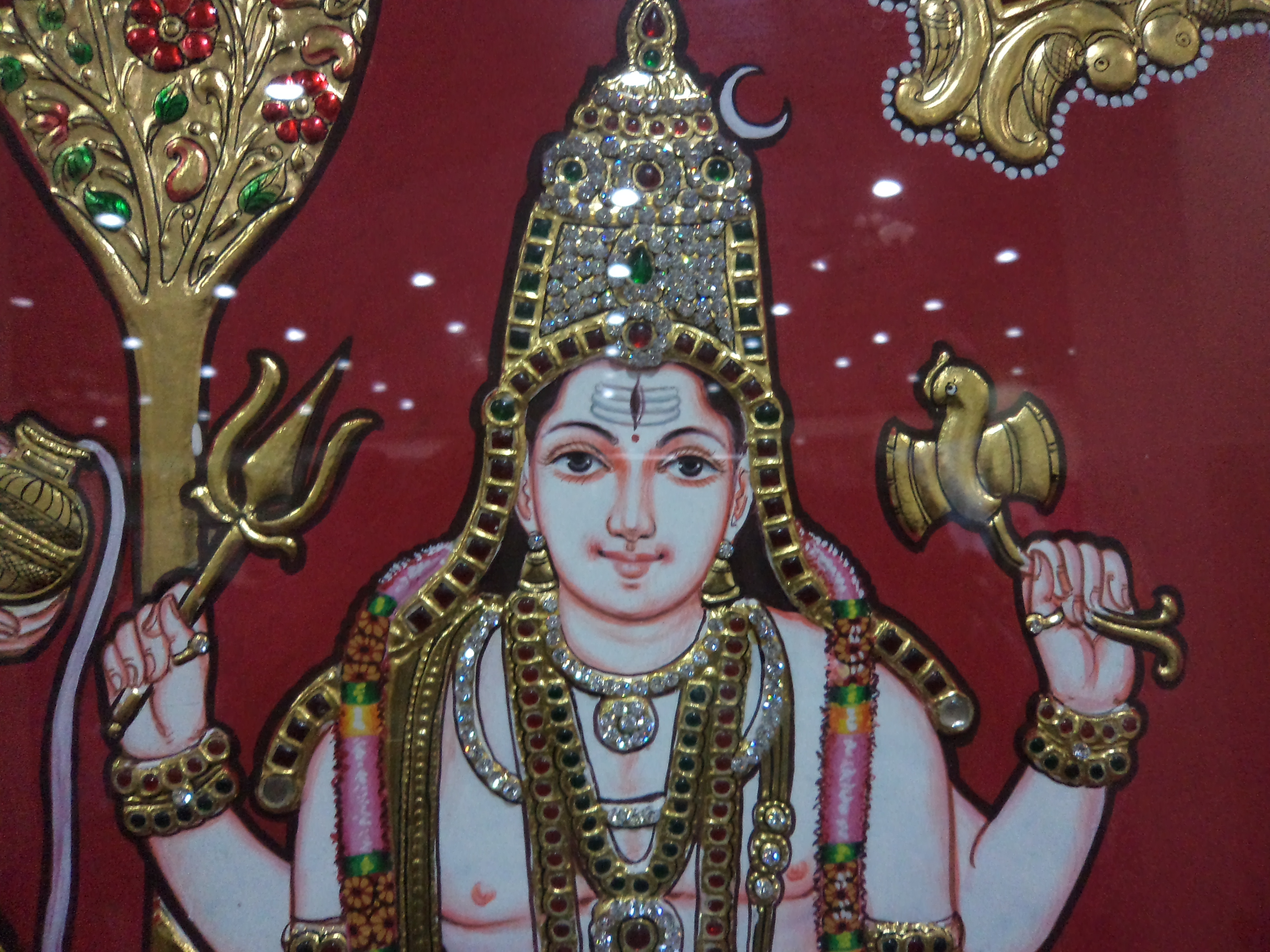 Lord Siva in a painting